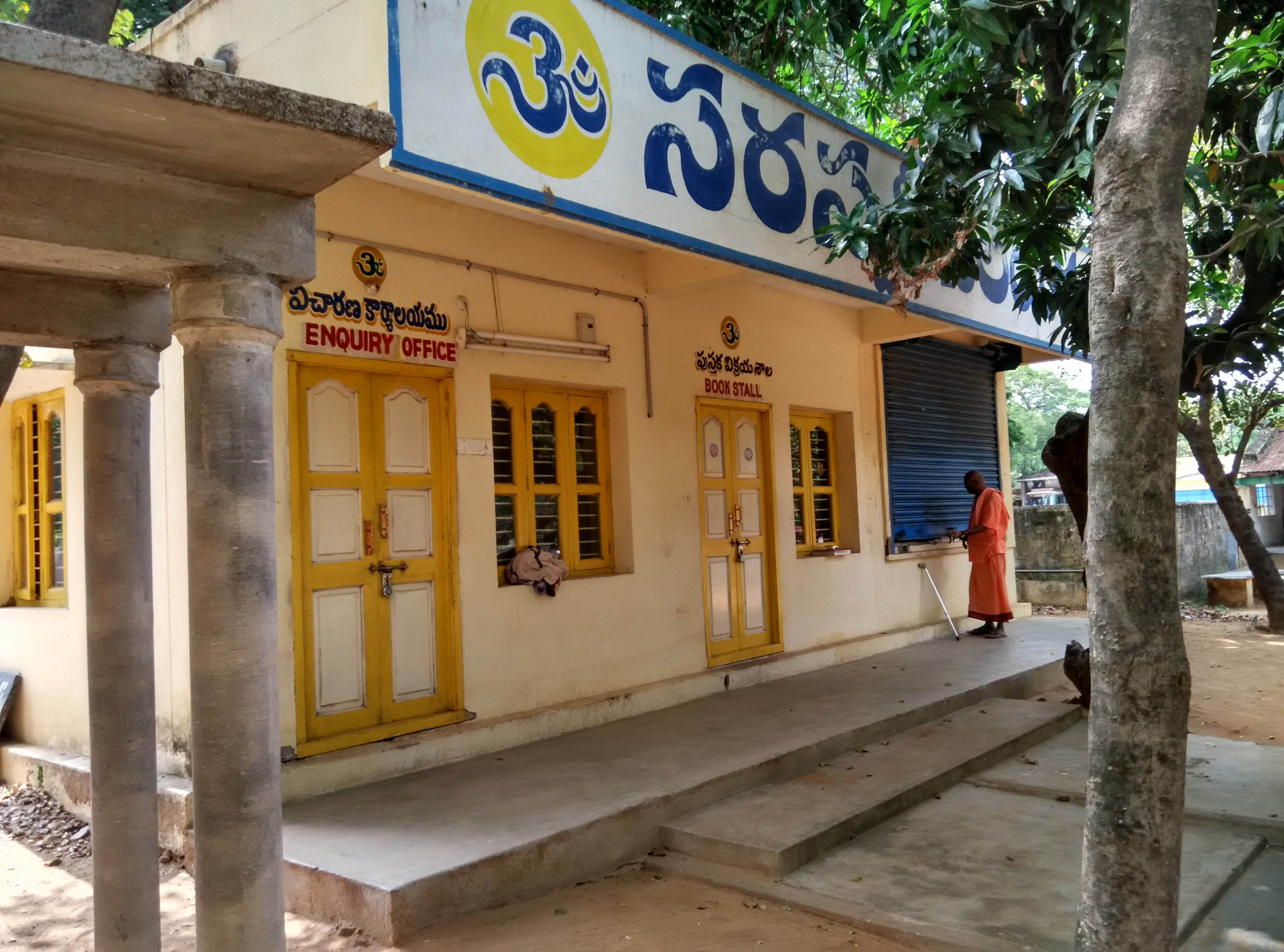 Several publications on Vedanta from Suka brahma srama can be purchased from a book stall inside the premises. picture taken at srikalahasti, andhra pradesh, india.